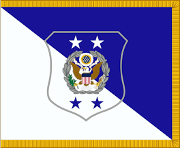 Flag of the Chief Master Sergeant of the US Air Force. Website's disclaimer page states that the material is for non-commercial and non-political purposes only, quote author, website, and other copyright rules. FOTW Flags Of The World website at